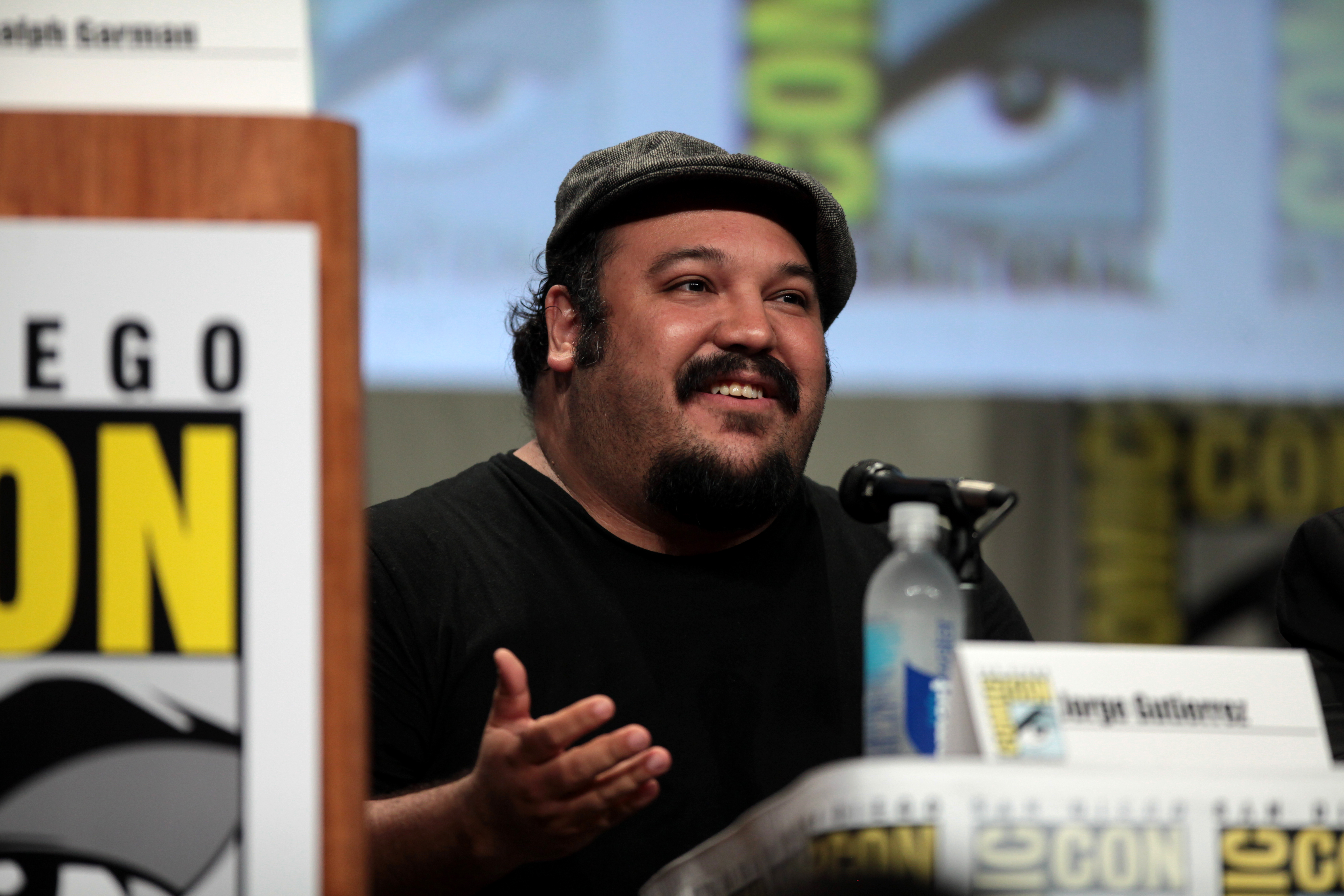 Jorge Gutierrez speaking at the 2014 San Diego Comic Con International, for "The Book of Life", at the San Diego Convention Center in San Diego, California.